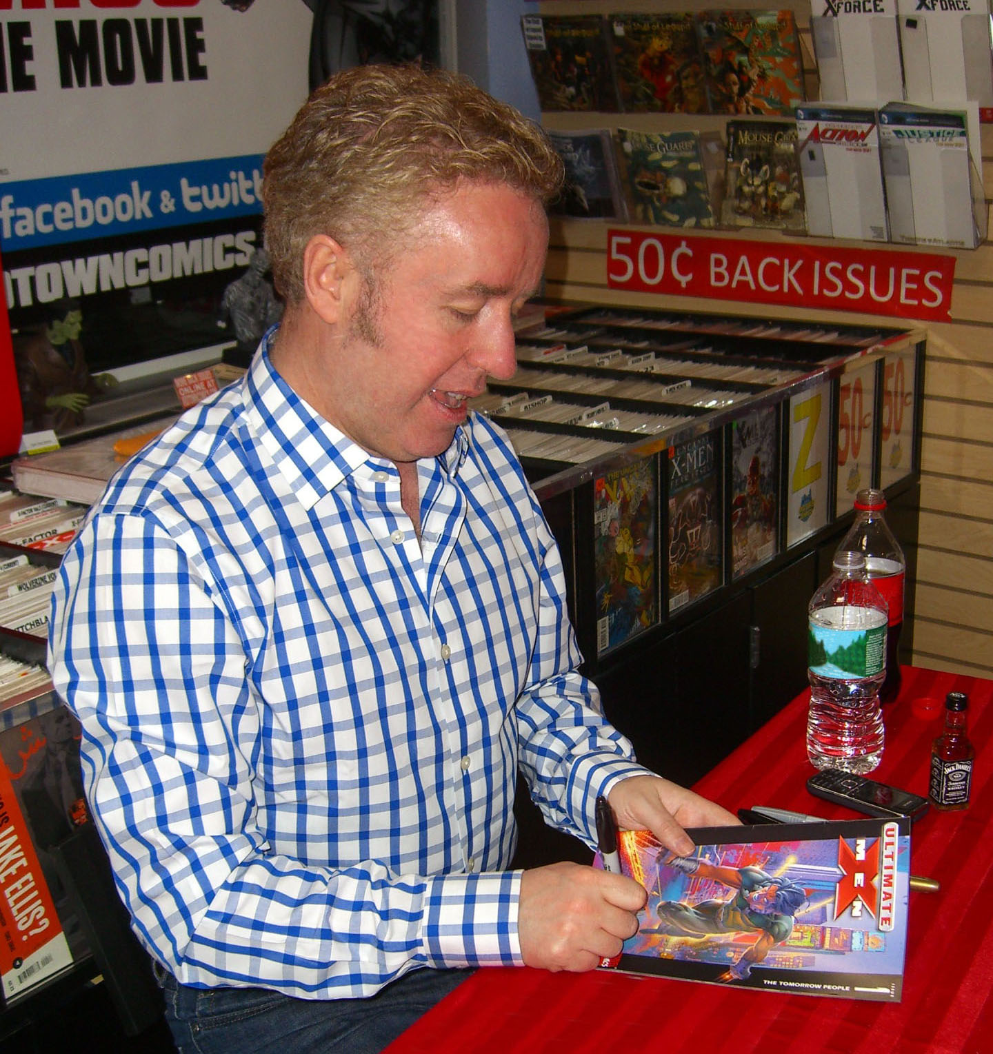 Scottish comics writer Mark Millar at an April 25, 2013 signing at Midtown Comics in Manhattan for his miniseries, Jupiter's Legacy, which debuted the day prior. In the photo, Millar is signing a copy of one of his previous works, Ultimate X-Men. This photo was created by Luigi Novi. It is not in the public domain, and use of this file outside of the licensing terms is a copyright violation.